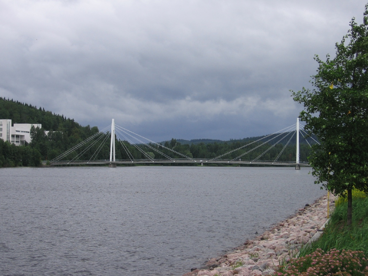 A bridge in Jyväskylä, Finland